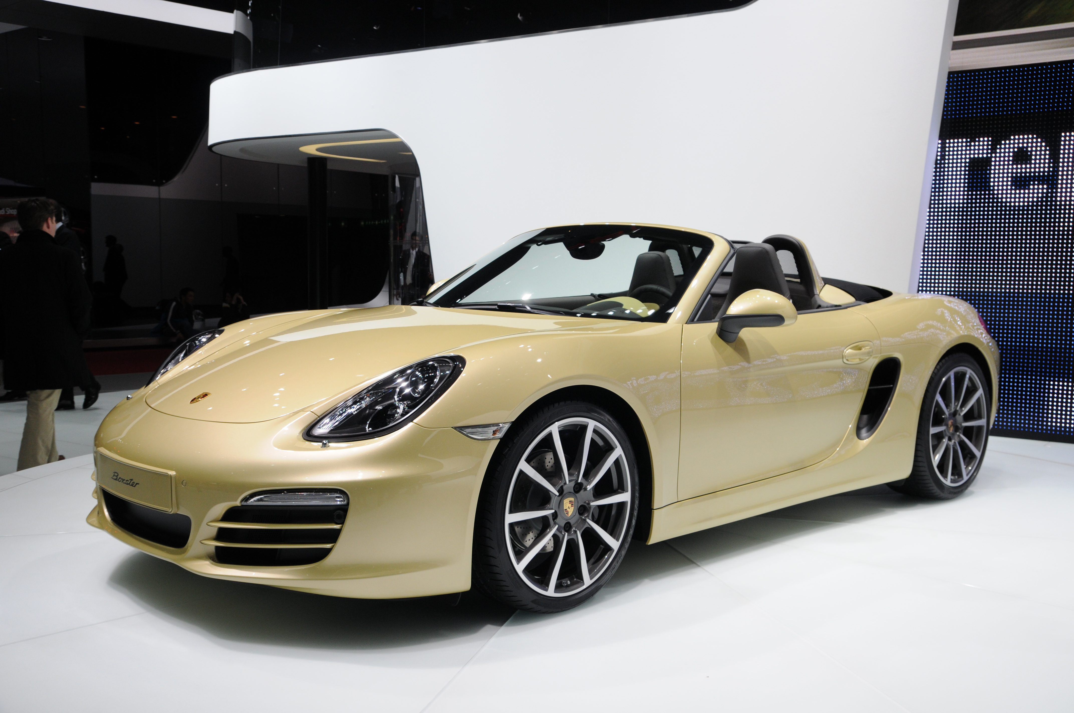 Geneva Motor Show 2012 (photos taken on the second press day)